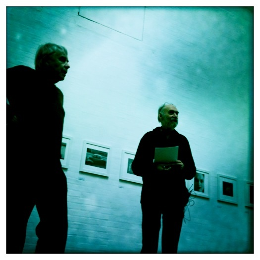 Artist talk with Gunnar Smoliansky